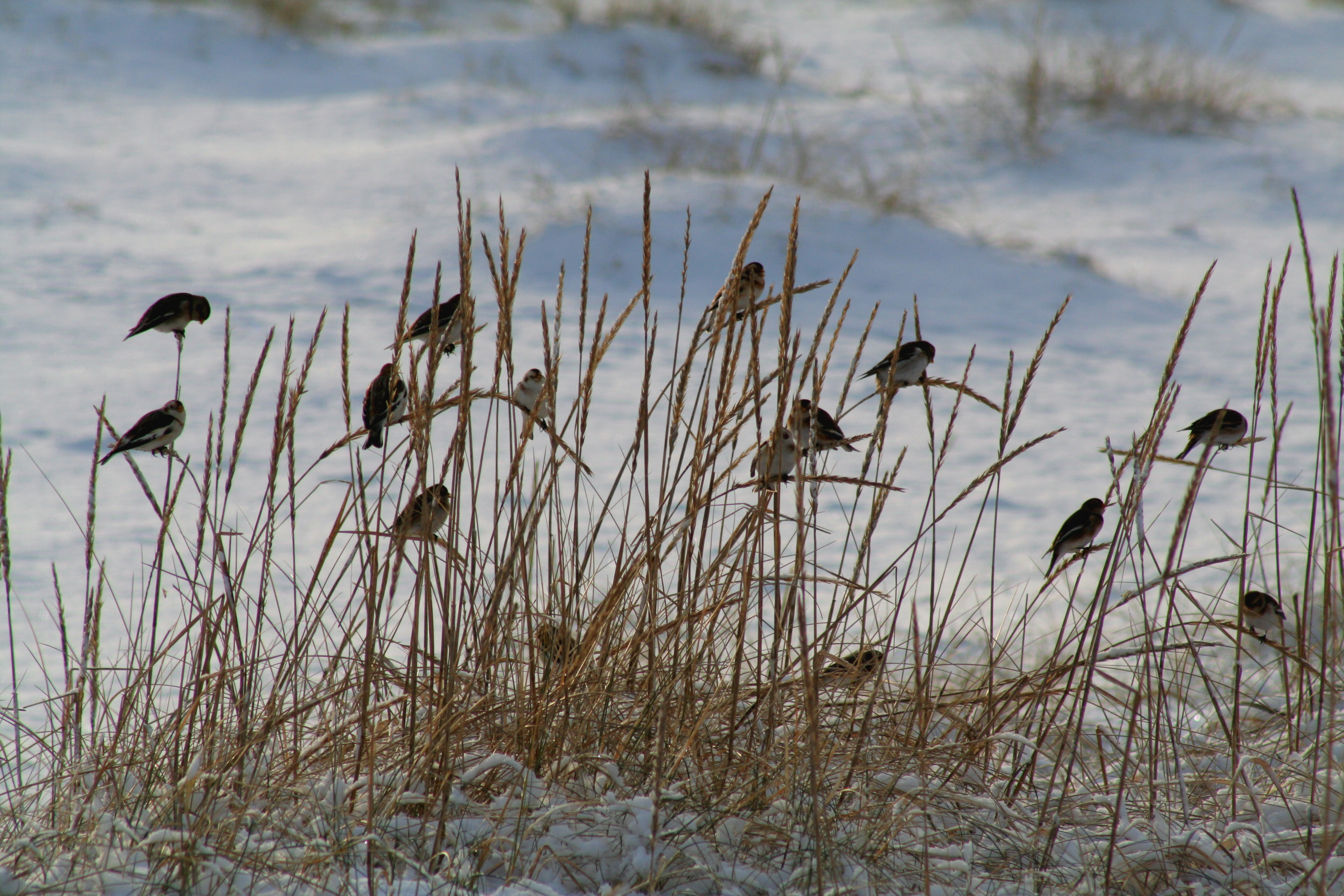 A flock of over 50 Snow Buntings on Dornock beach, Scotland. They were flitting over the dunes and occasionally coming to rest and feeding on the tall stalks of maram grass. In autumn and winter birds develop a sandy/buff wash to their plumage and males have more mottled upperparts.